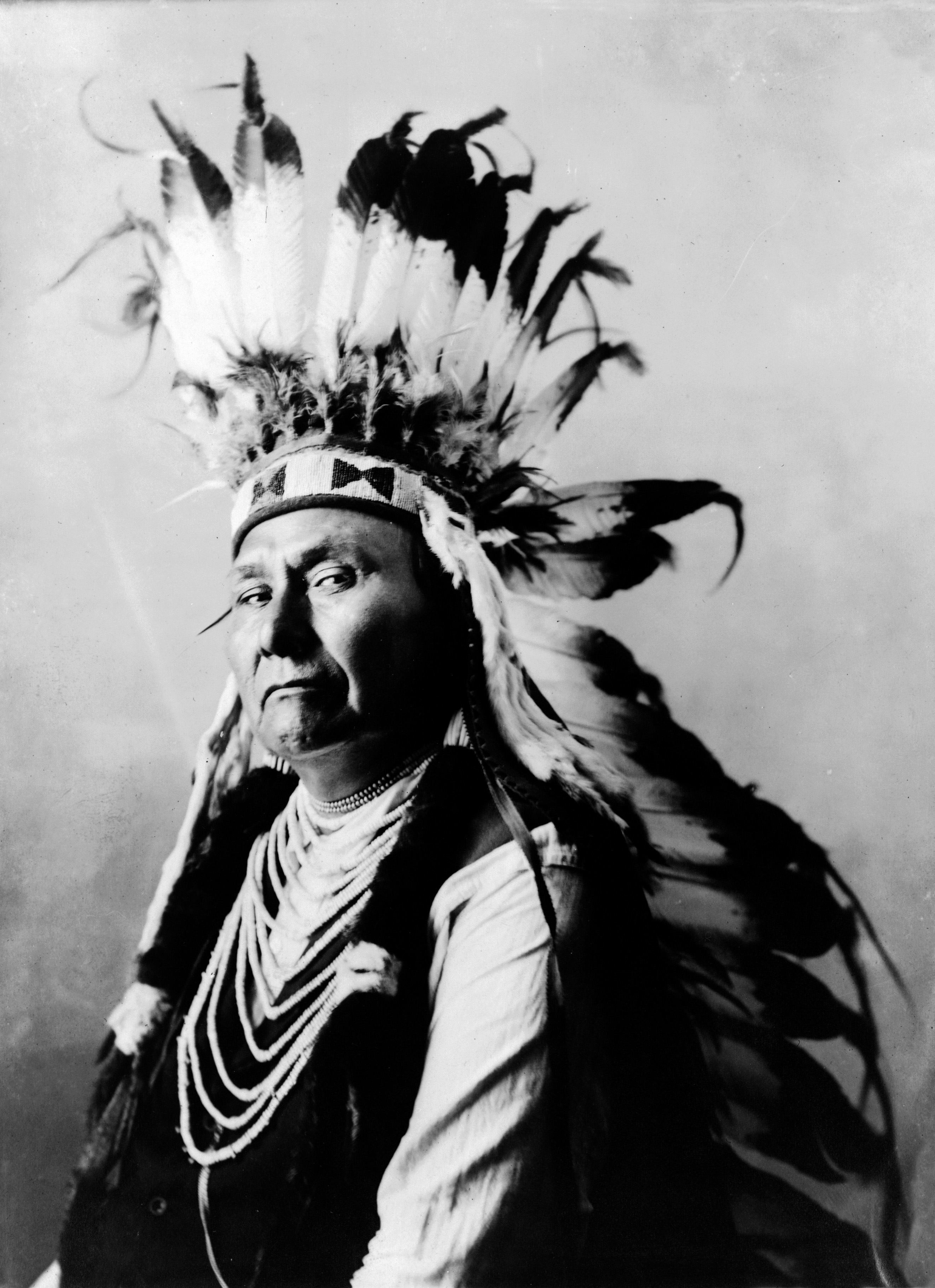 Chief Joseph (1840–1904), the chief of the Wal-lam-wat-kain (Wallowa) band of Nez Perce Indians